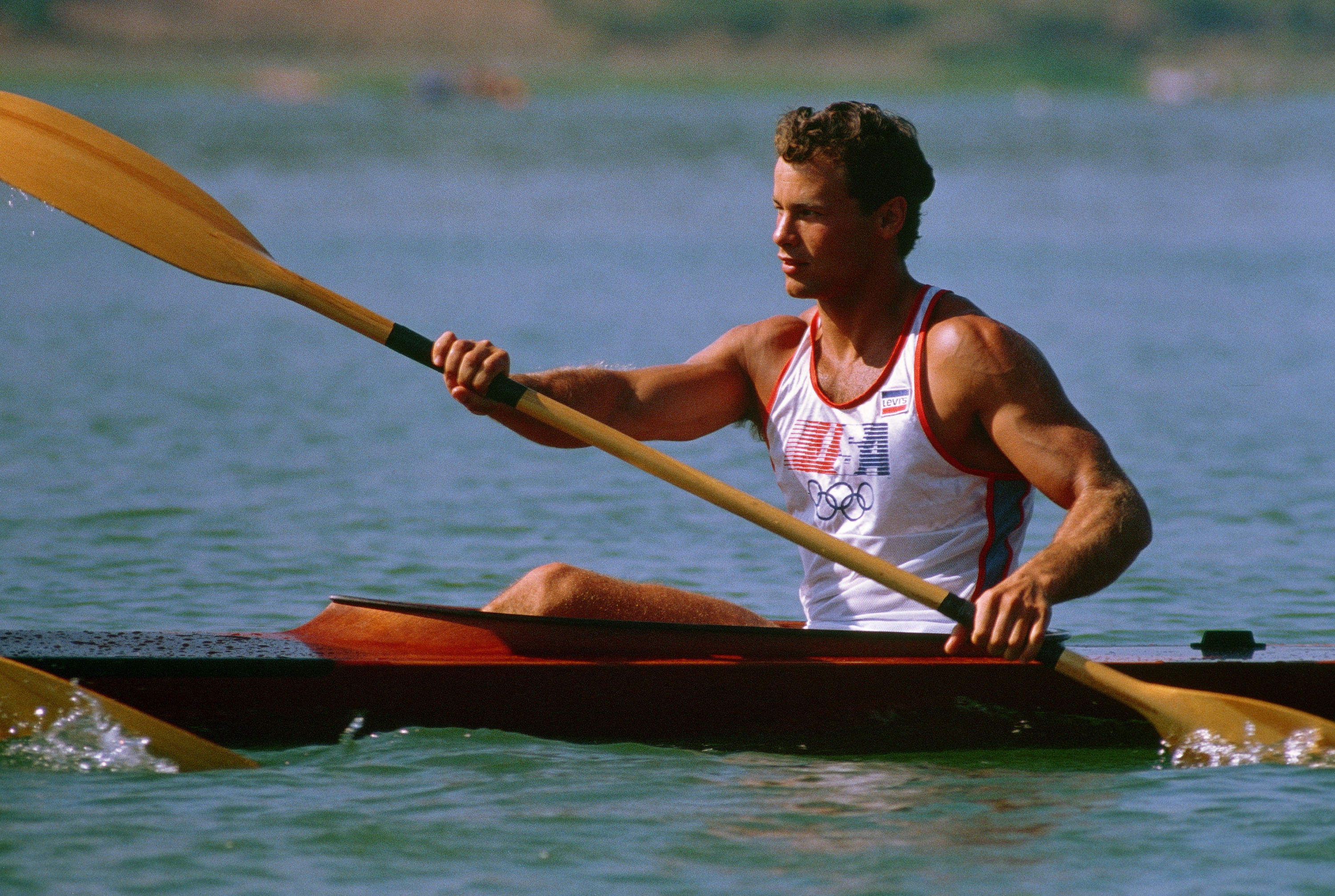 Daniel W. Schnurrenberger from Newport Beach, California, participates in the kayak competition at the 1984 Summer Olympics.